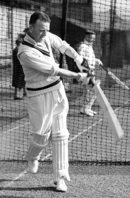 Len Hopwood of Lancashire County Cricket Club. Circa 1939.